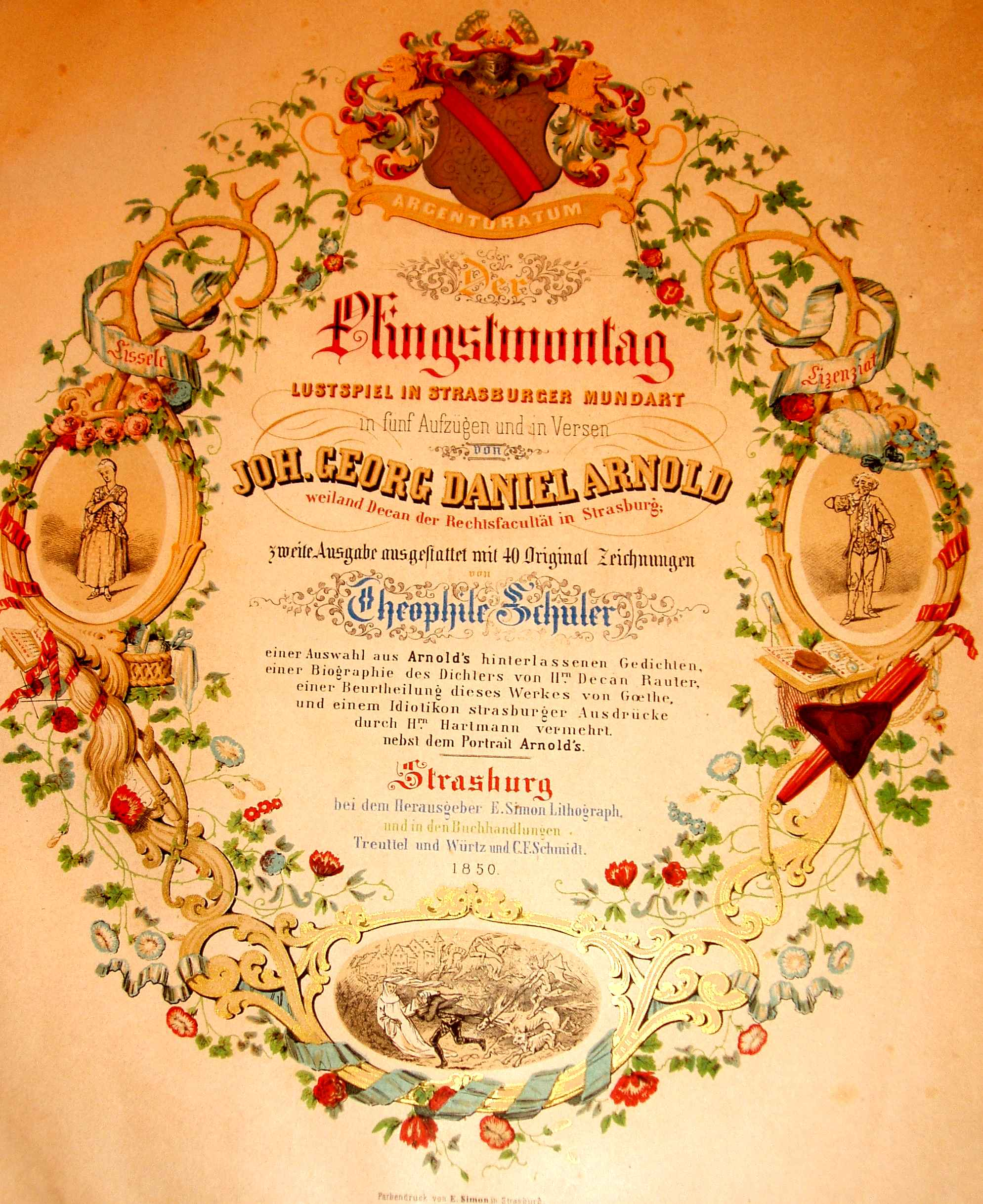 Pfingsmonstag, an alsacian play